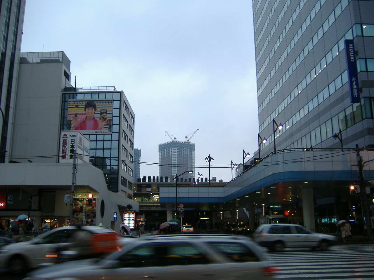 Tamachi Station Mita exit in Tokyo,Japan.